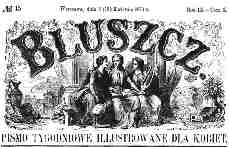 vignette of the Polish Kolce magazine